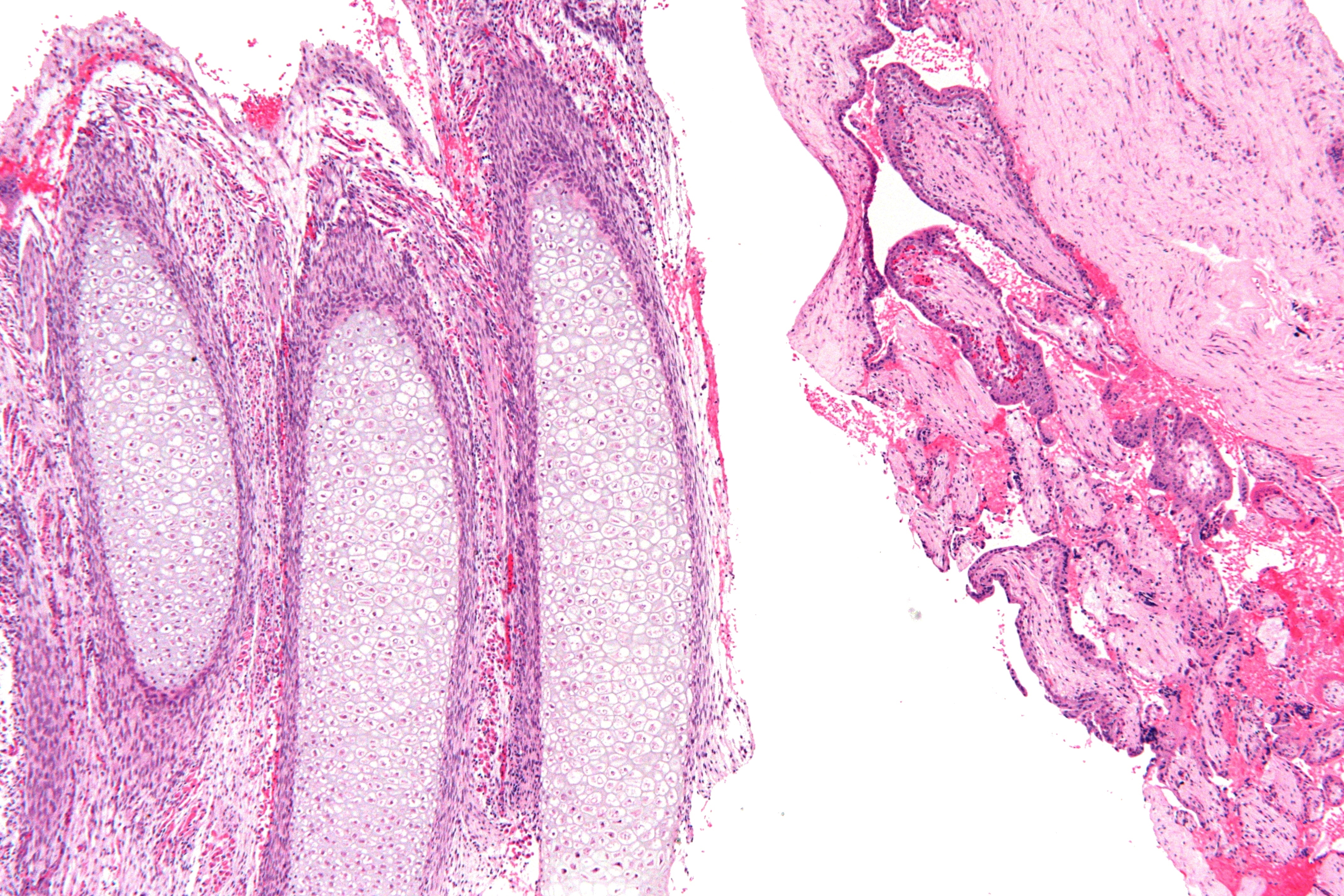 Low magnification micrograph of products of conception with fetal parts. H&E stain. Related images Low mag. Intermed. mag. Low mag. Intermed. mag. High mag. Very high mag.